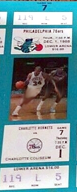 A ticket for a December 1, 1988 National Basketball Association game featuring the Philadelphia 76ers versus the Charlotte Hornets at the Charlotte Coliseum.